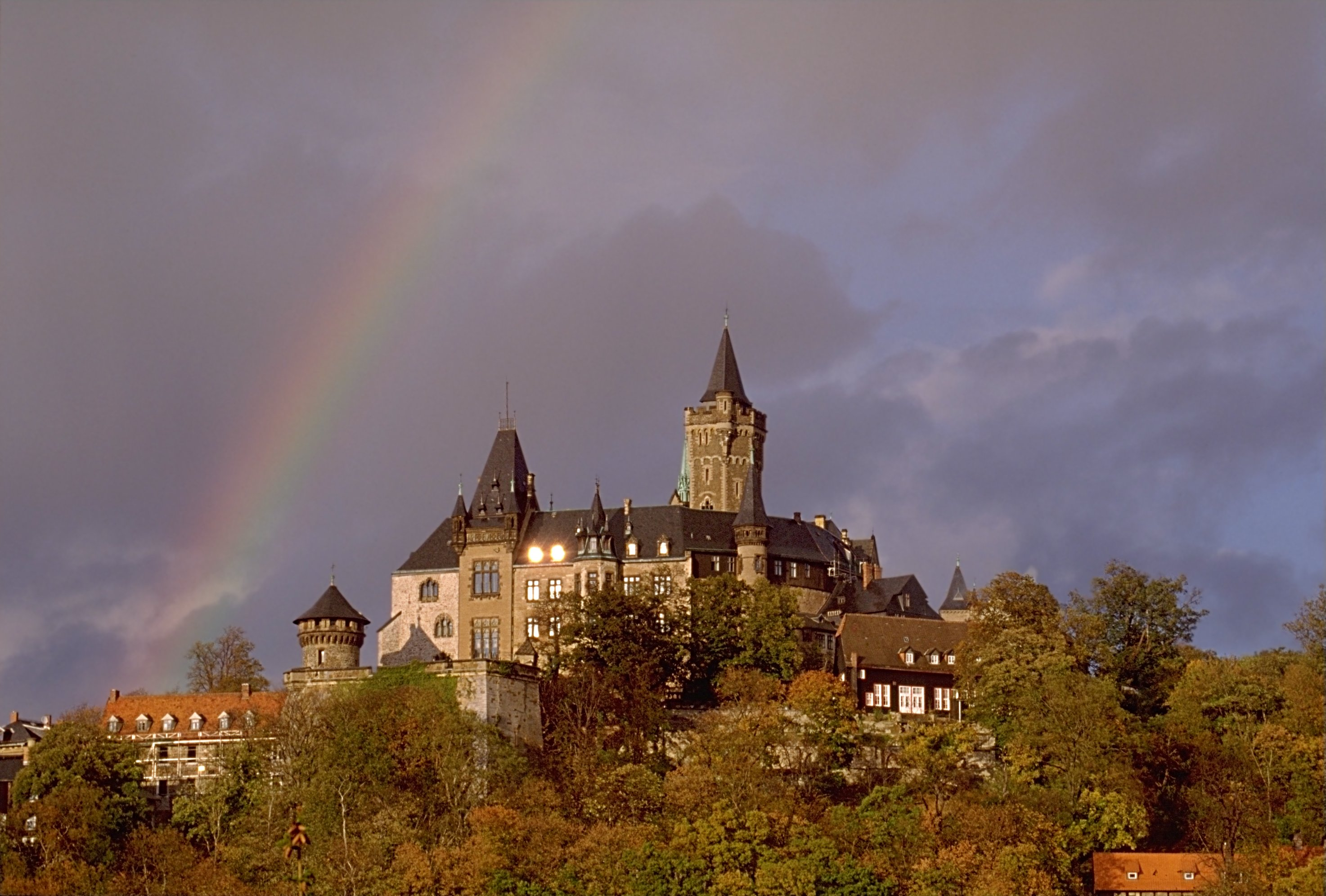 Castle of Wernigerode in Autumn Photo was taken using the following technique: Film: Slide Lens: 4/70-210 Filter: none Body: Minolta Support: none Image with Information in English Bild mit Informationen auf Deutsch